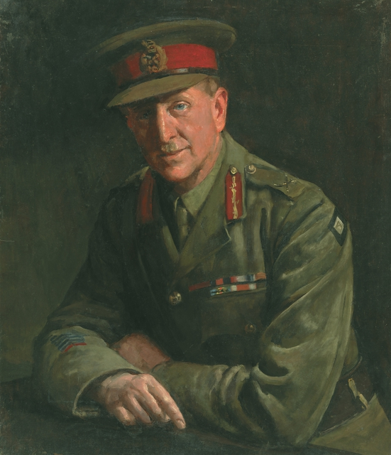 This image is a portrait of Brigadier General Cecil Foott, made in 1921